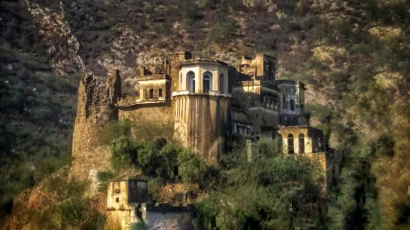 Taseeng Fort successively used by Chouhan and Badgurjar Clans of Machedi Kingdom in Behror .